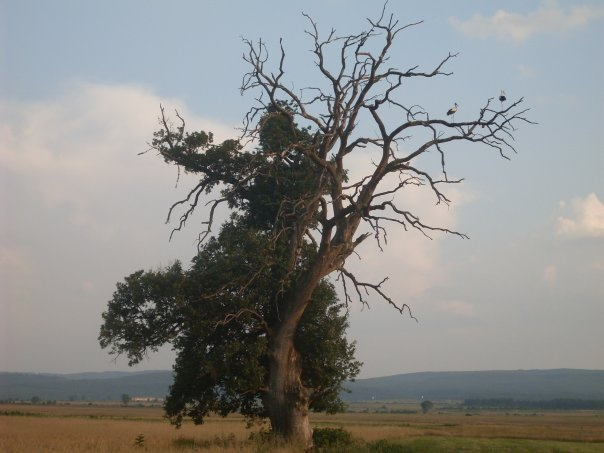 staria dub near to Lesnovo